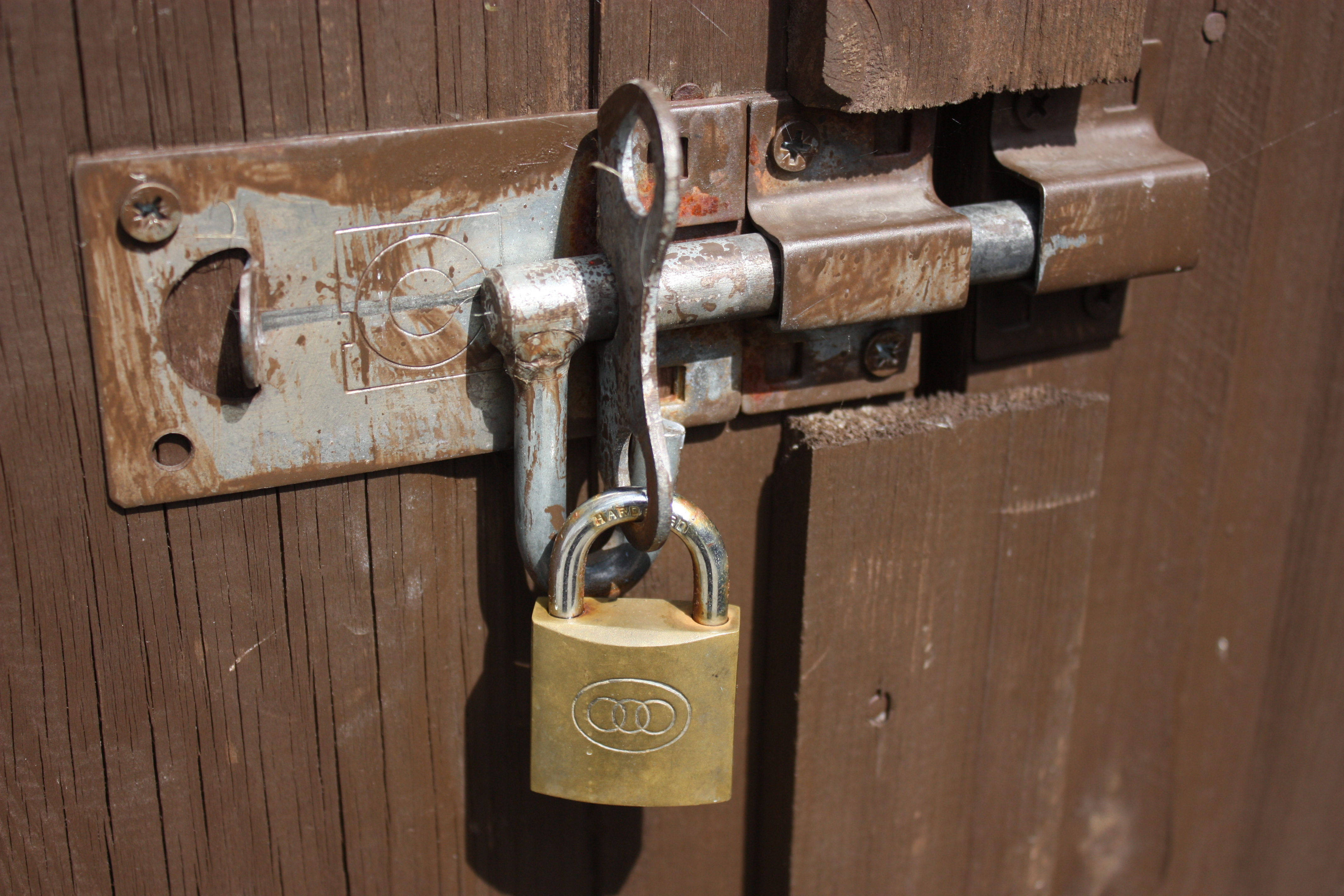 Security, Downpatrick, County Down, Northern Ireland, May 2011